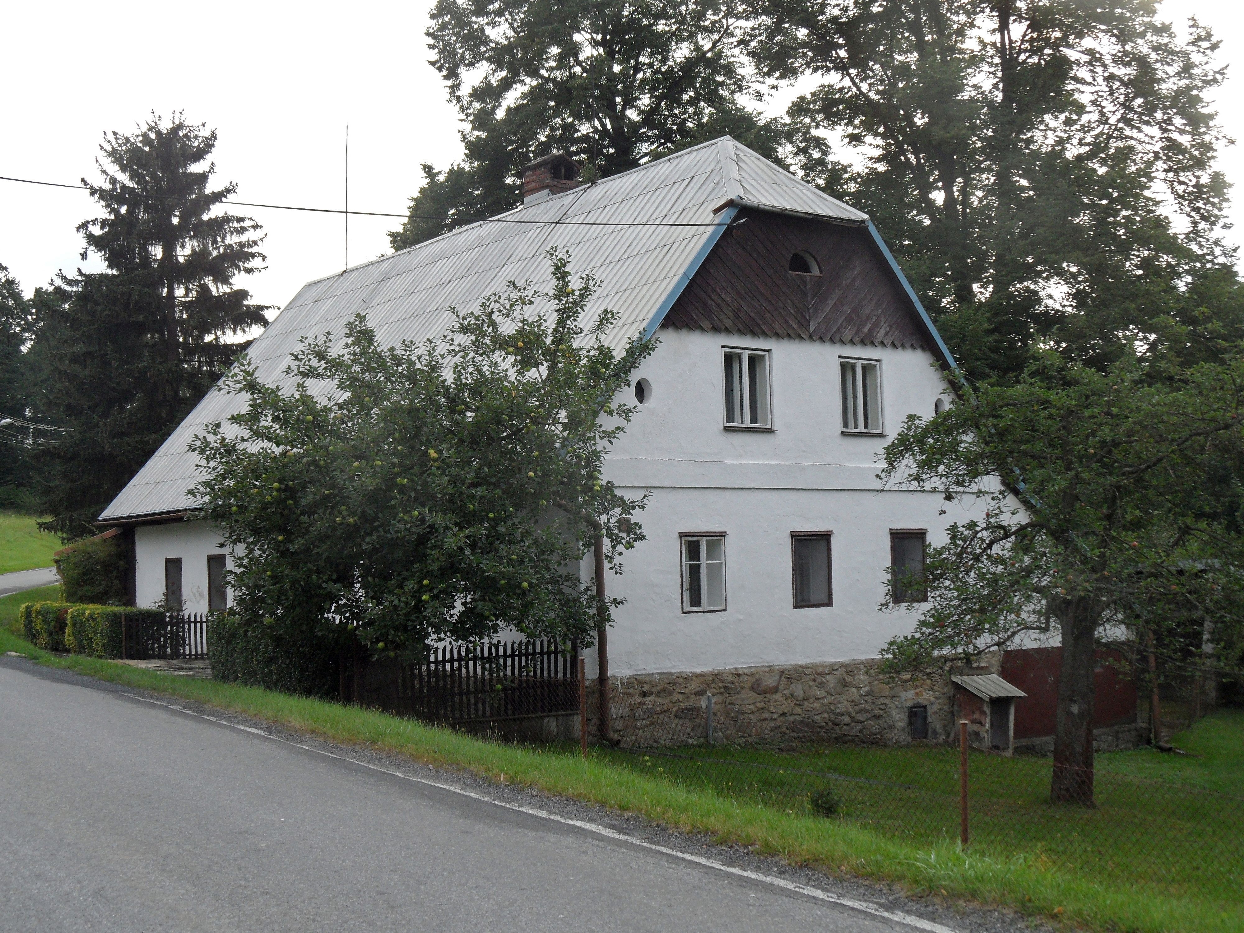 Rokliny: Cottage. Jeseník District, the Czech Republic.�